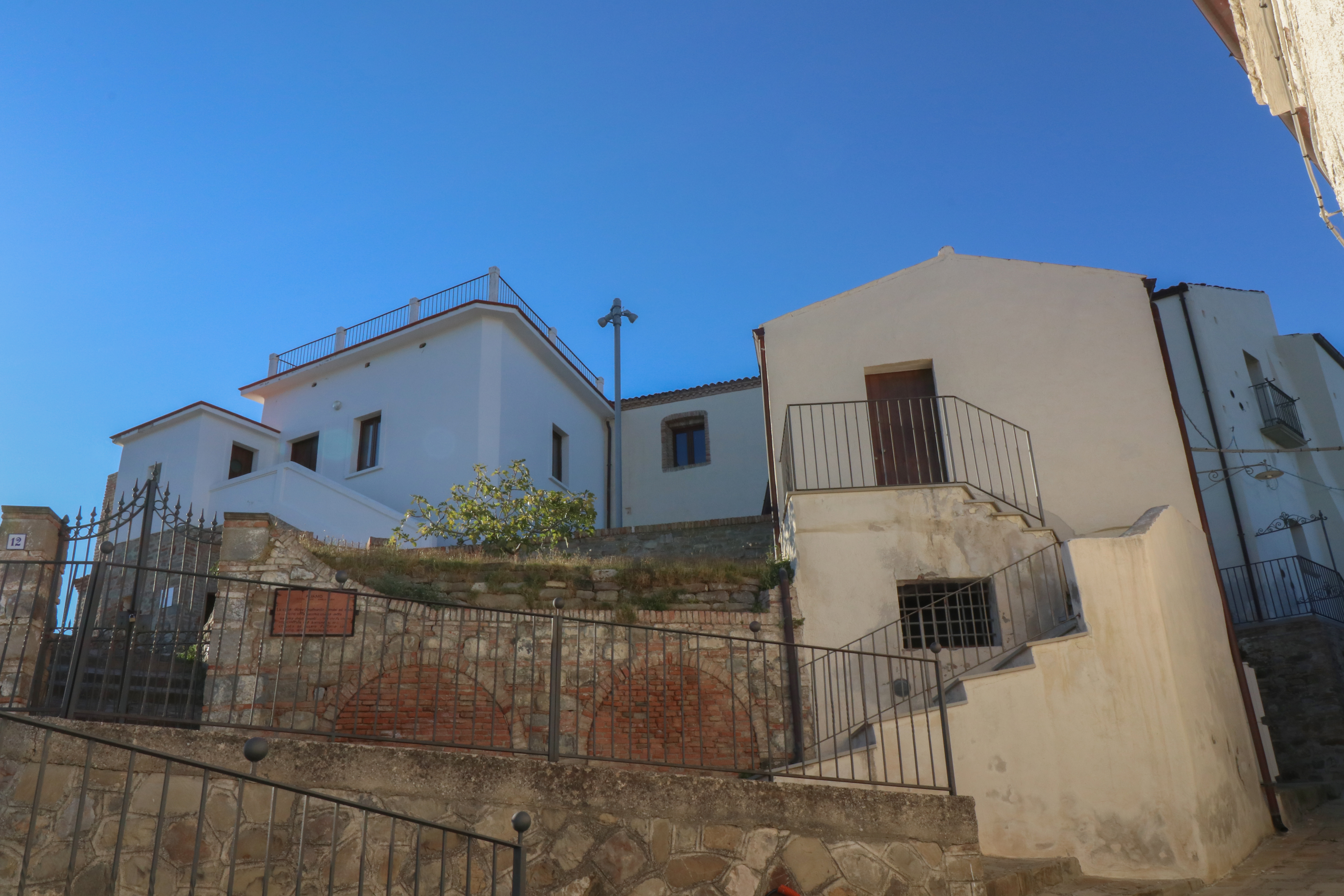 This is a photo of a monument which is part of cultural heritage of Italy.